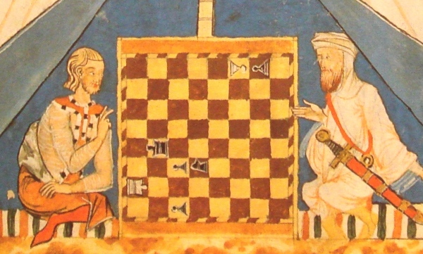 Christian And Moor Playing Chess. Libros de juegos d'Alphonse X le sage fol. 64r.